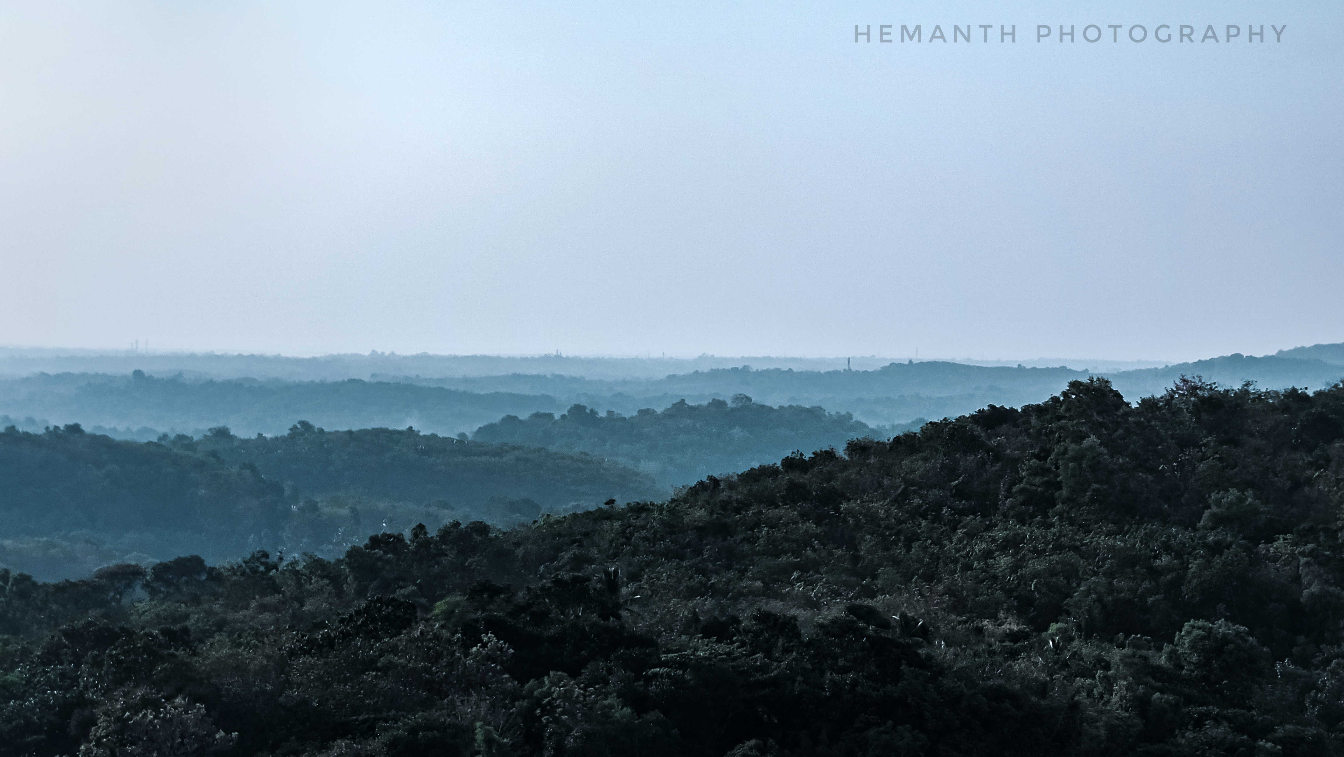 Muttra hills located in ezukone near kottarakara.beautiful view from hills